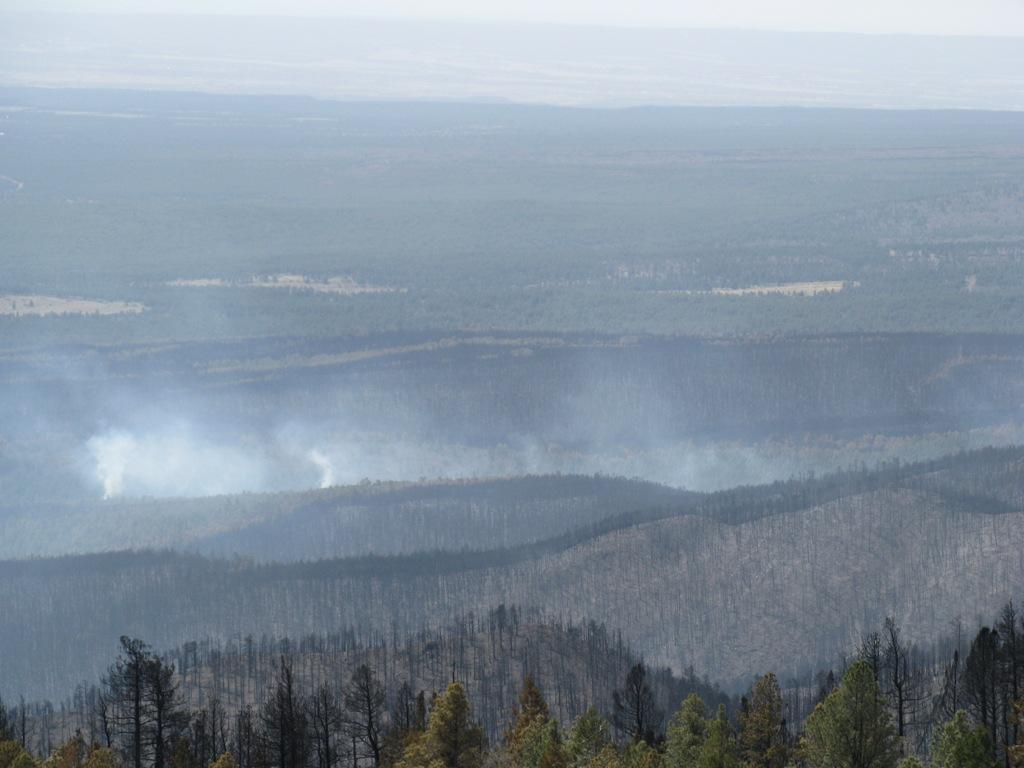 Trigo fire burning in a canyon in the Mountainair Ranger District of the Cibola National Forest, Torrance County, New Mexico